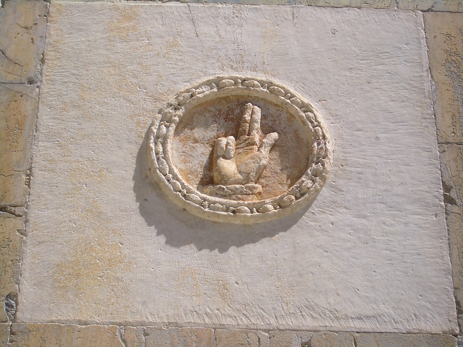 Carrara cathedral